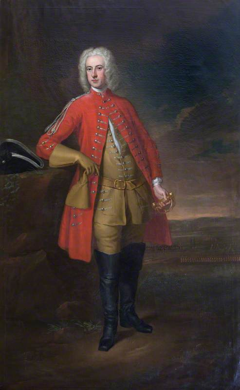 Aikman, William; Sir John Cope (1690-1760); National Trust, Blickling Hall